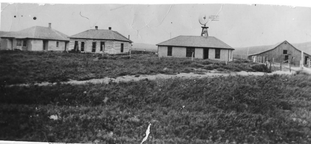 This image appeared on English Wikipedia's Main Page in the Did you know? column on 21 November 2007 (see archives). Spade Ranch Headquarters 1889